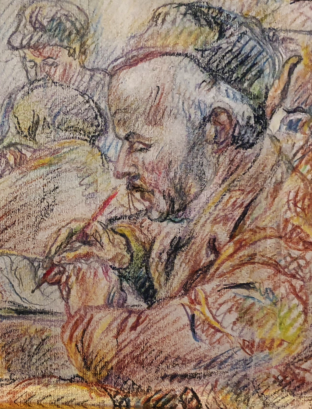 Fidia Palla - La lettera dal manicomio - drawing